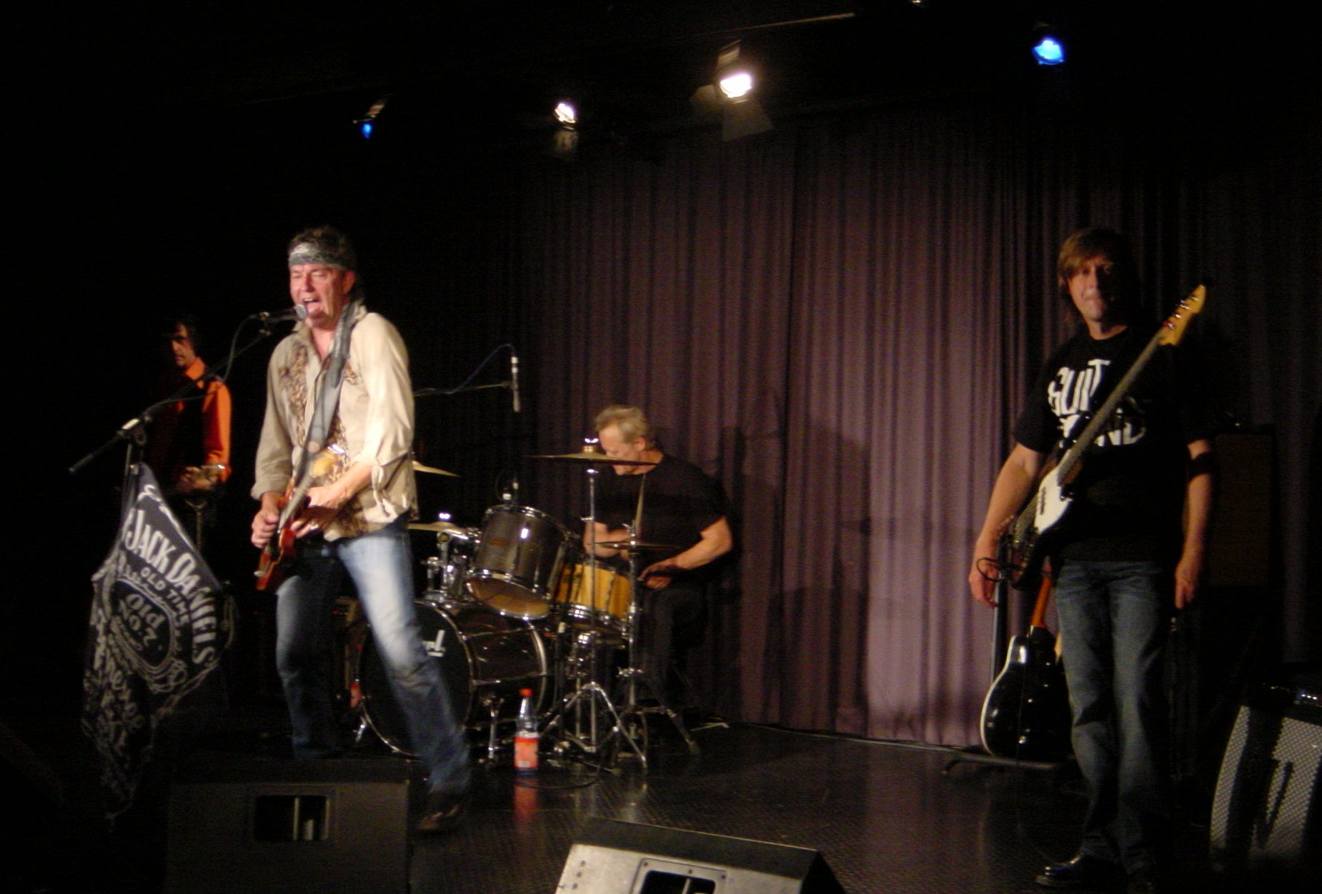 Mike Kilian and Starfucker in Q24, Pirna, Germany